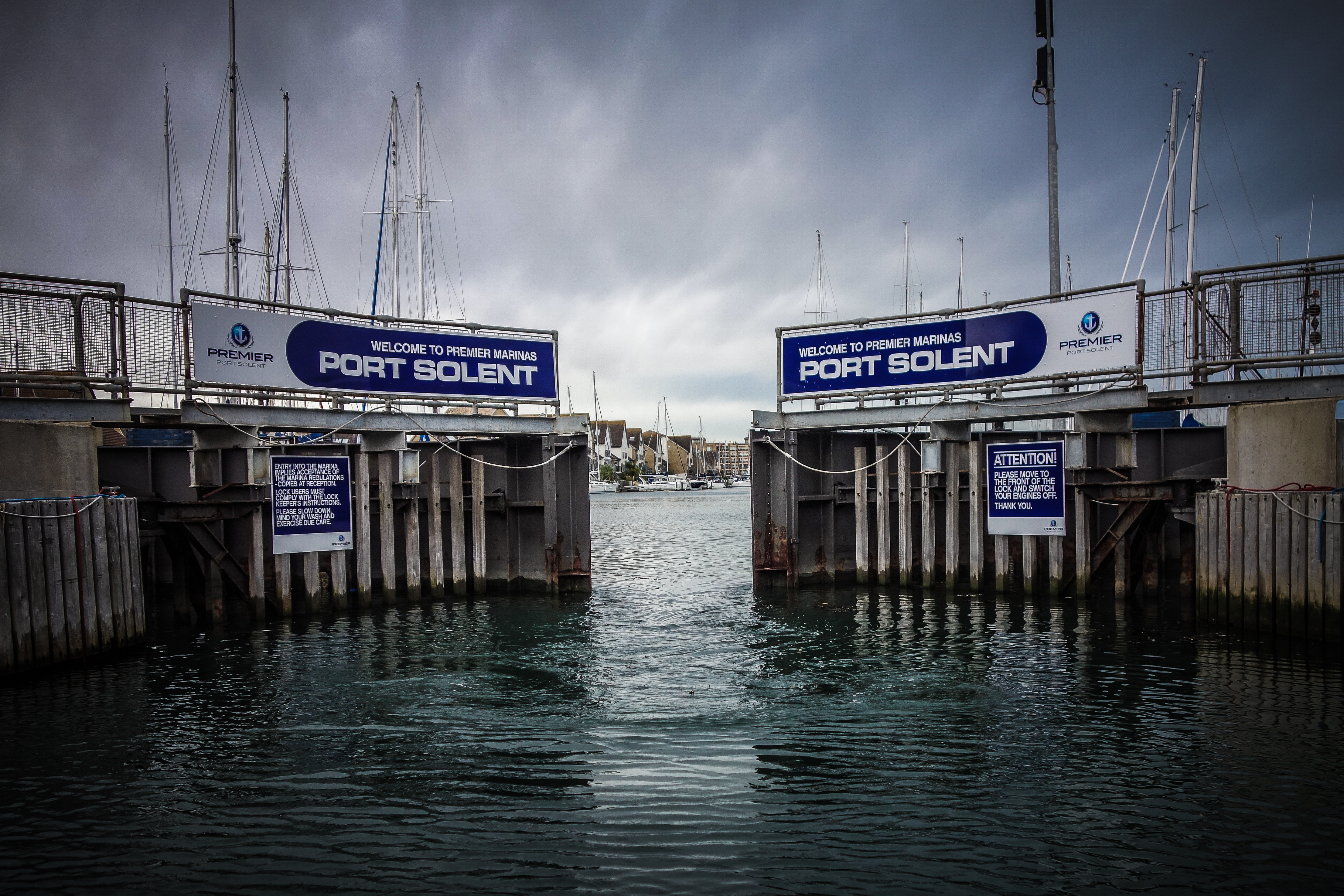 A very welcome sight after a long sail...